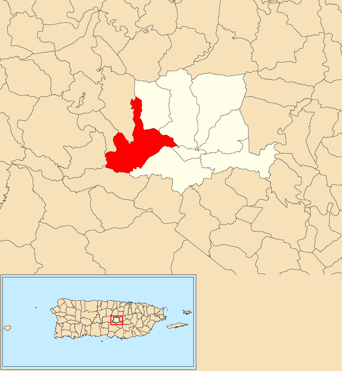 Palo Hincado, Barranquitas, Puerto Rico locator map